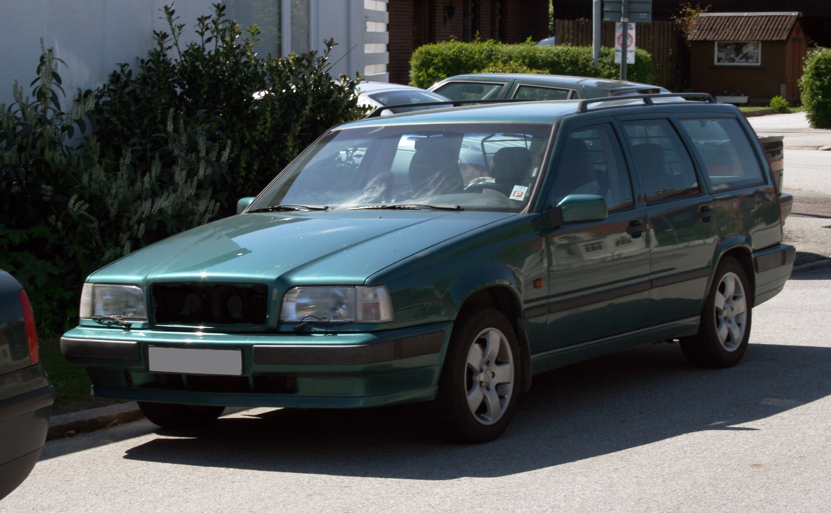 Volvo 850 combi (855). This is an early car with the old bumpers. They were replaced with more modern ones in 1995. The front lights also became thinner at that time.